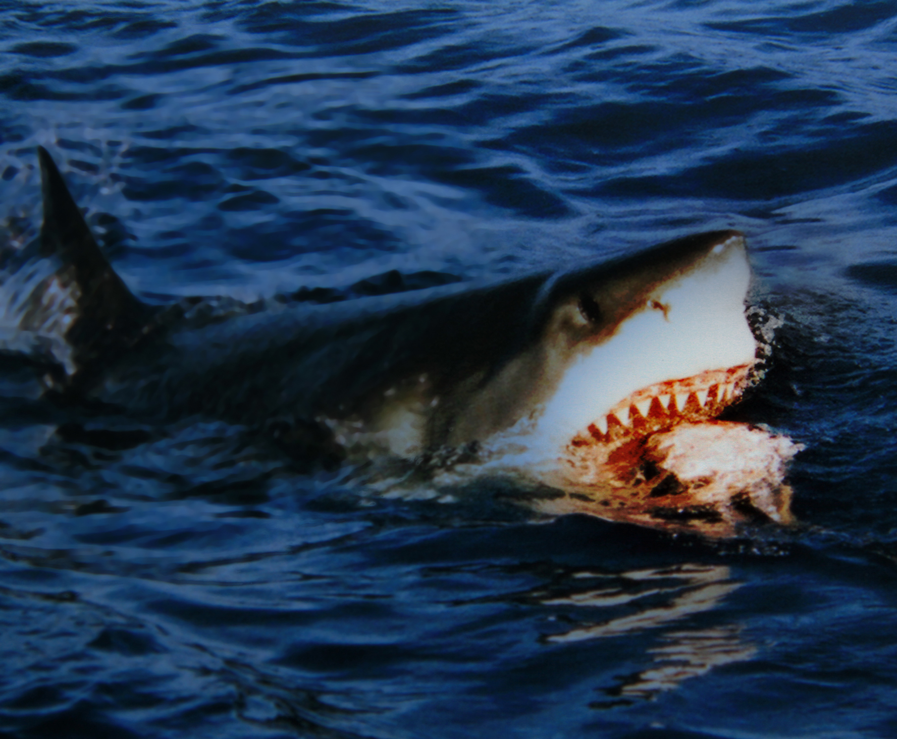 A great white shark at Isla Guadalupe, Mexico is catching a bait of a tuna. Please note, we did not try to catch a shark. We did try to bring sharks closer to the cages. No shark was hurt. The picture is a digital copy of my old film picture.